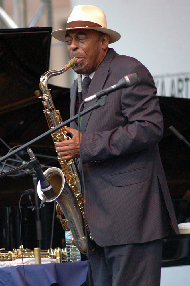 Archie Shepp during an open-air concert in the Old Town of Warszawa, Poland.